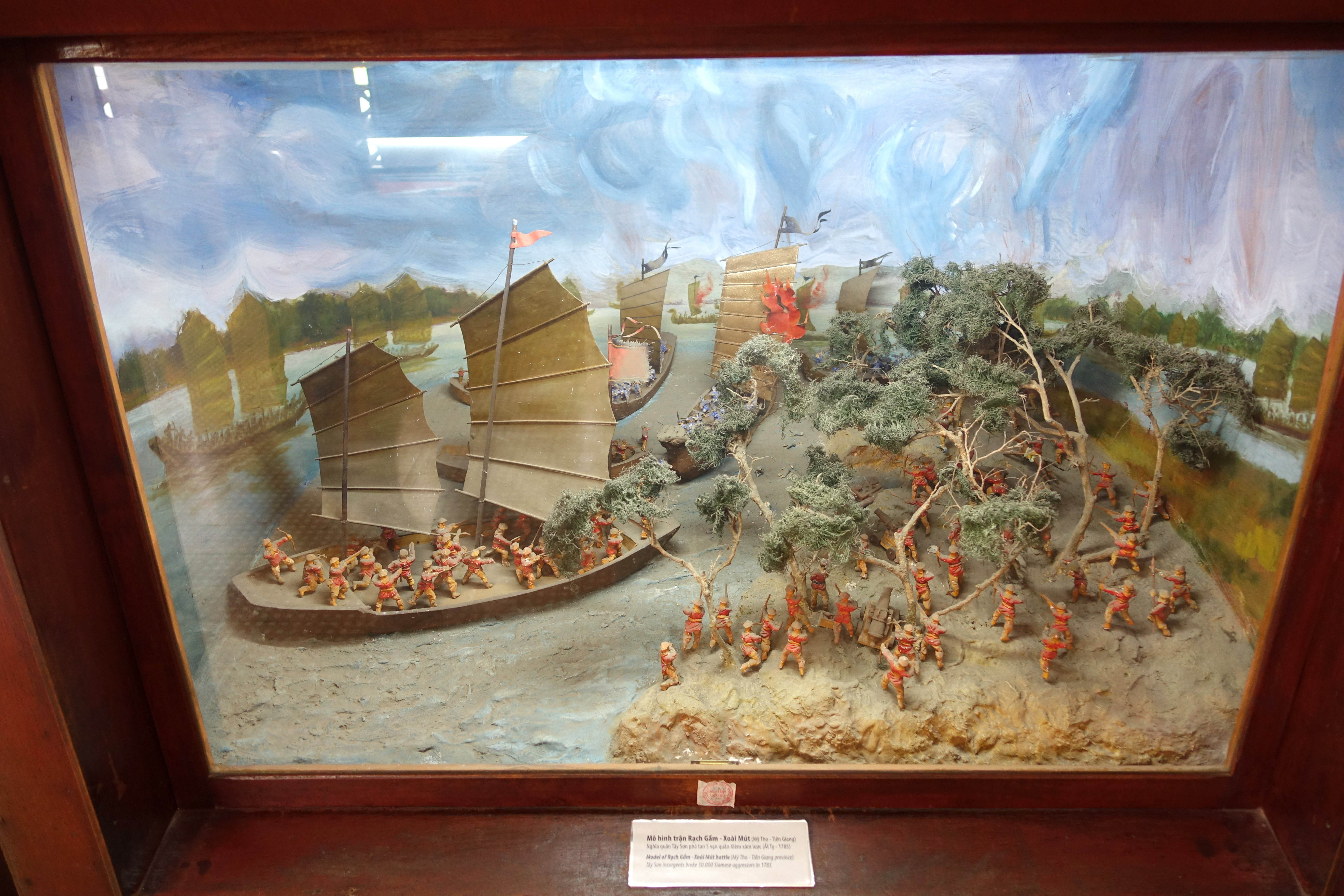 Exhibit in the Museum of Vietnamese History, Ho Chi Minh City, Vietnam. This work is old enough so that it is in the public domain.